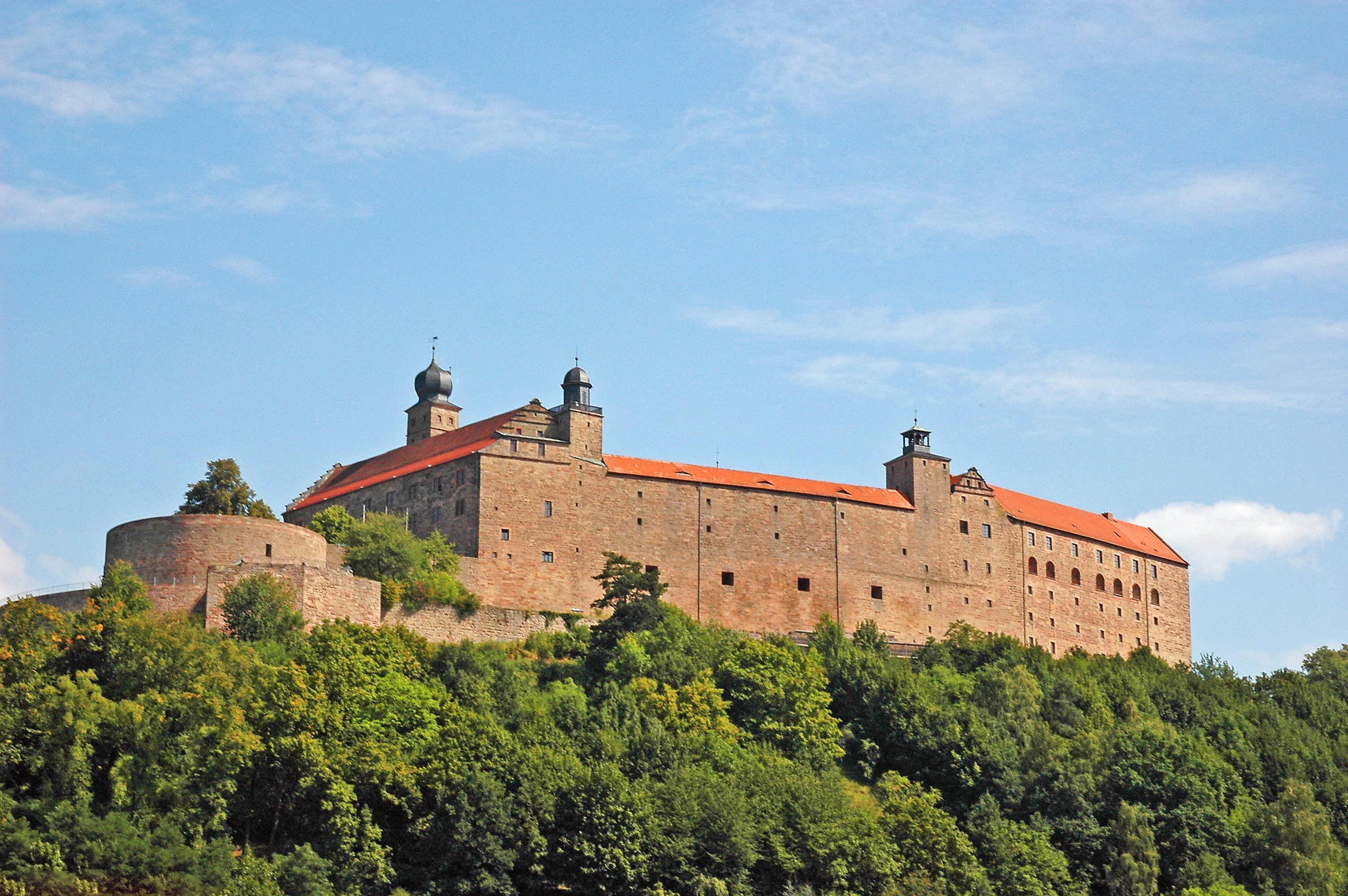 Kulmbach Plassenburg General View by West